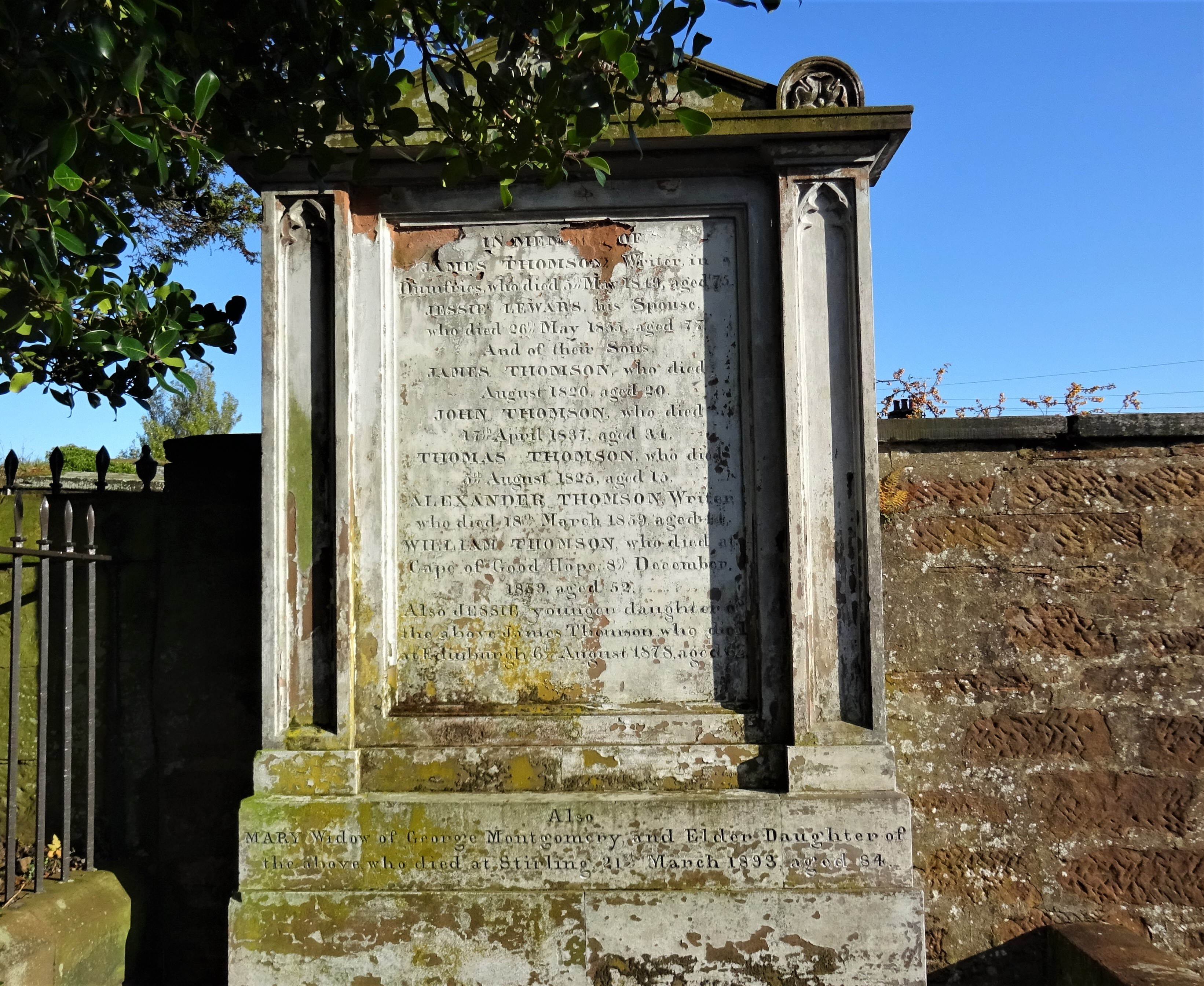 Jessie Lewars gravestone, St Michael's cemetery, Dumfries, Scotland. A great friend of Robert Burns and his family. Jessie nursed Robert in his death bed.